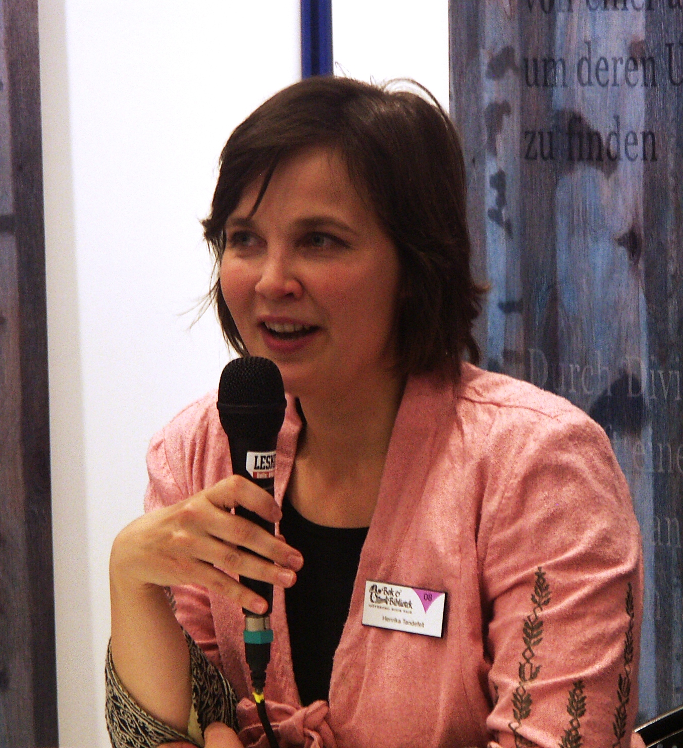 Henrika Tandefelt, swedishspeaking author from Finland.